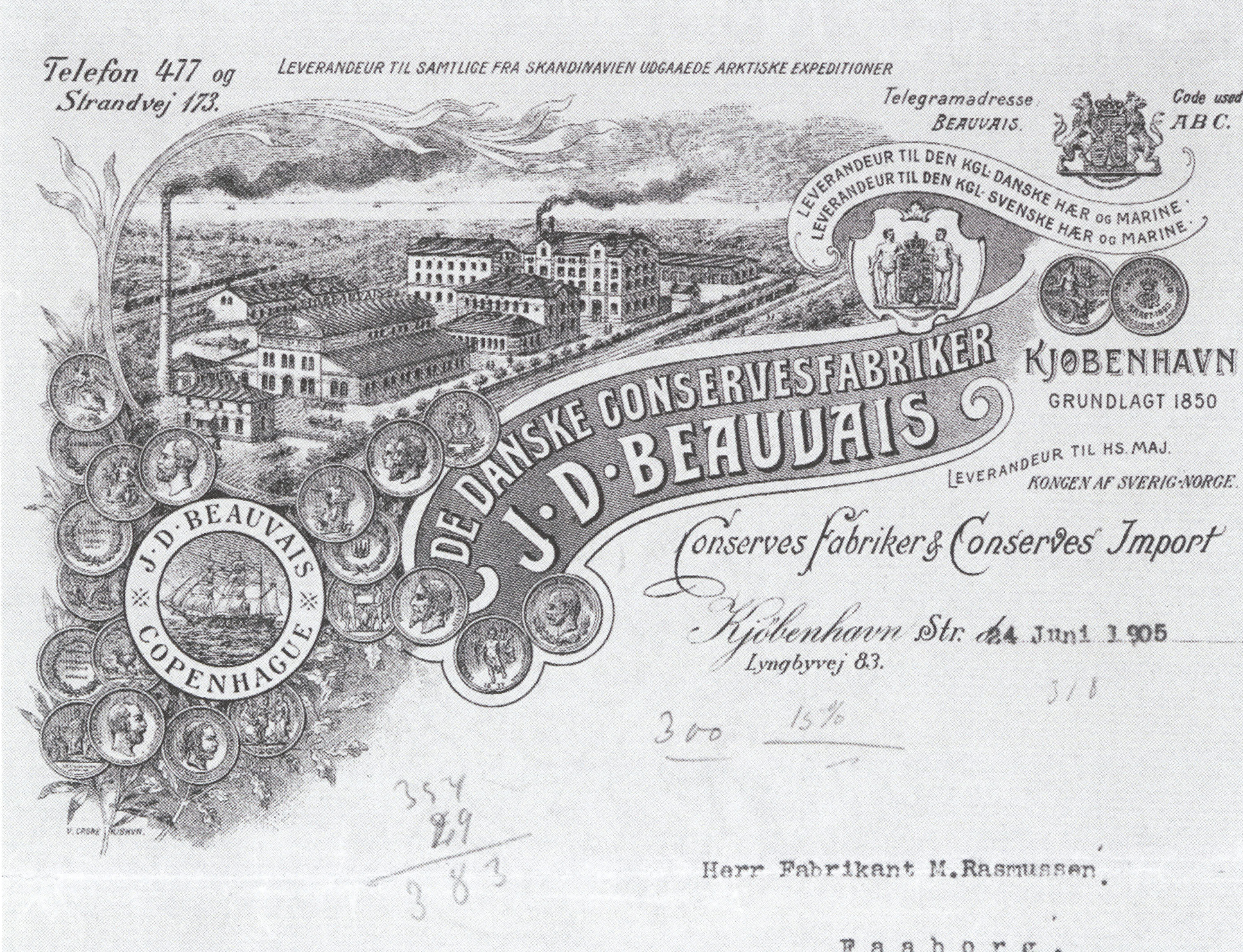 J. D. Beauvais advertisement from the 1890s, depicting the now demolished factory at Lyngbyvej in Copenhagen, Denmark